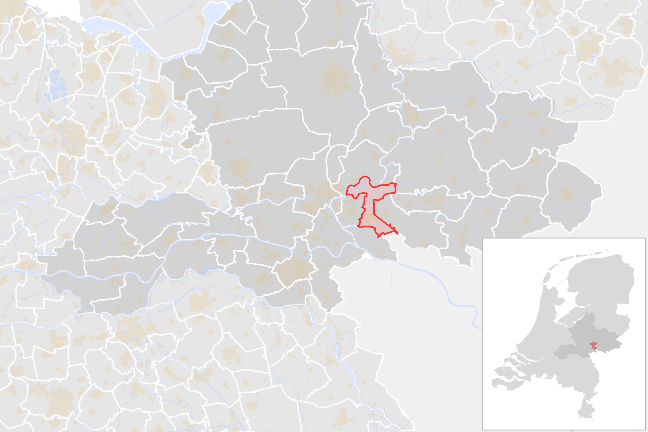 Locator map showing municipality boundary of one of the 390 Dutch municipalities (as of 2016)